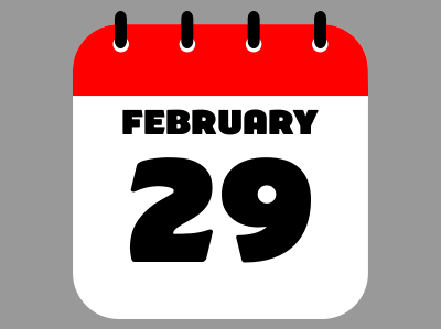 February 29 Leap day